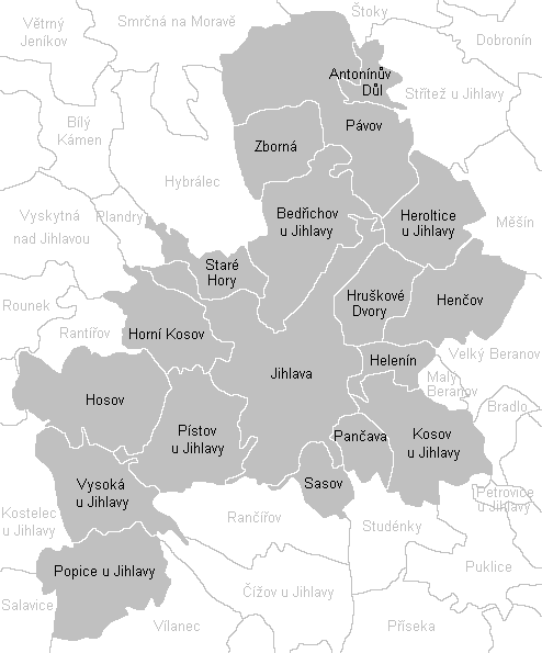 Cadastral map of Jihlava